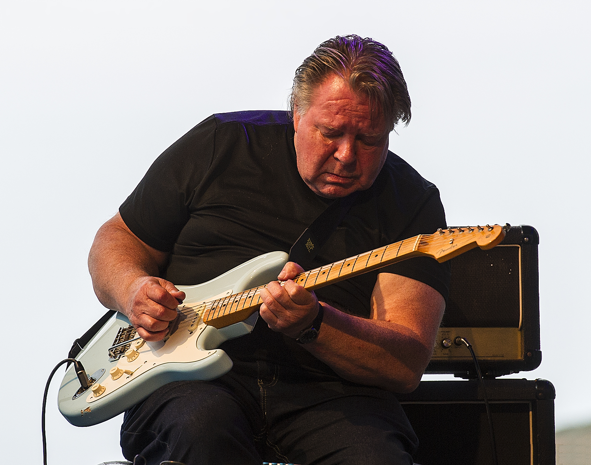 Please, feel free to comment. Much appreciated. Also, take a moment and visit my 500px and Flickr profiles